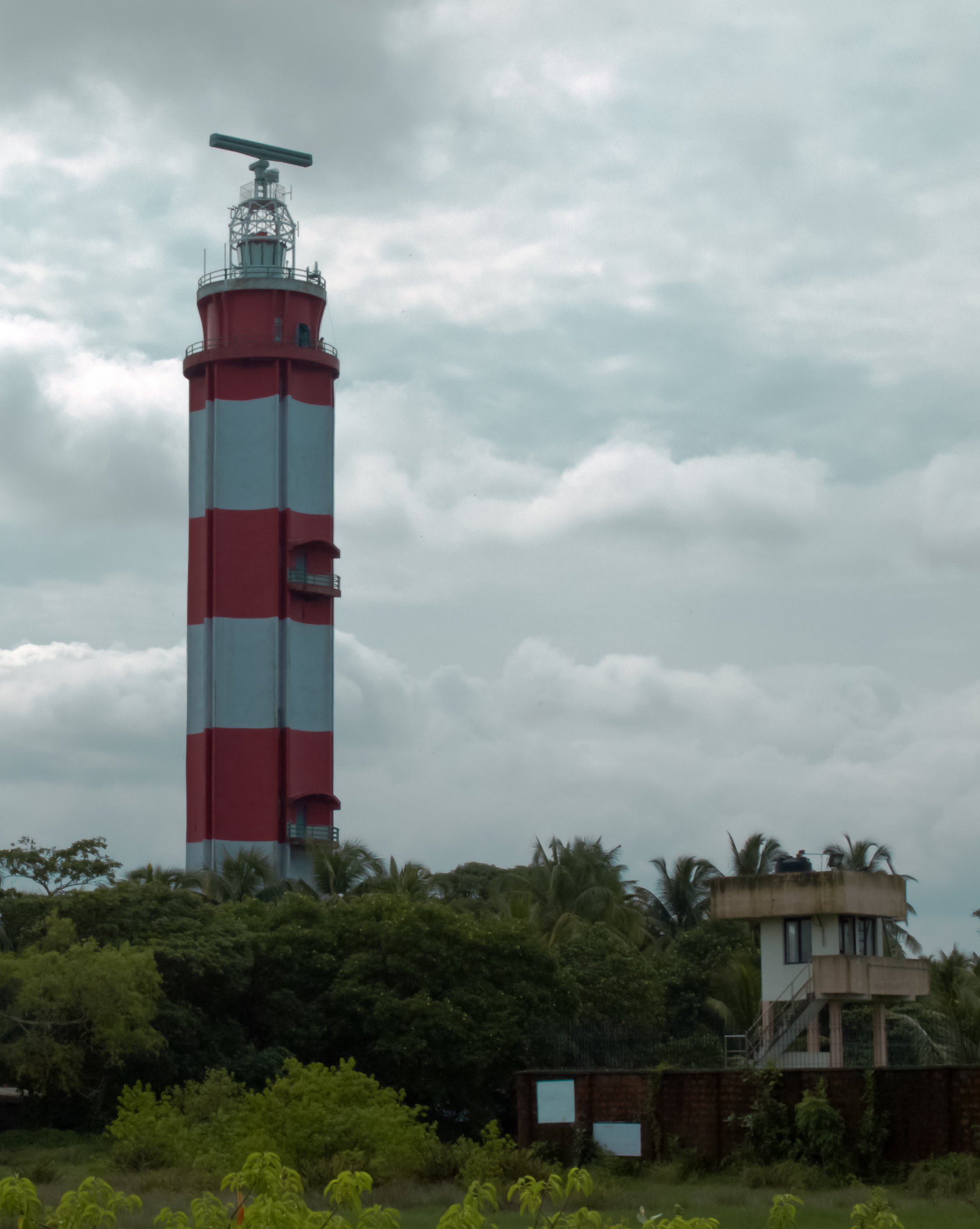 The lighthouse at Puthuvype, Vypin, Kochi, Kerala, India. It was earlier called Kochi Lighthouse.